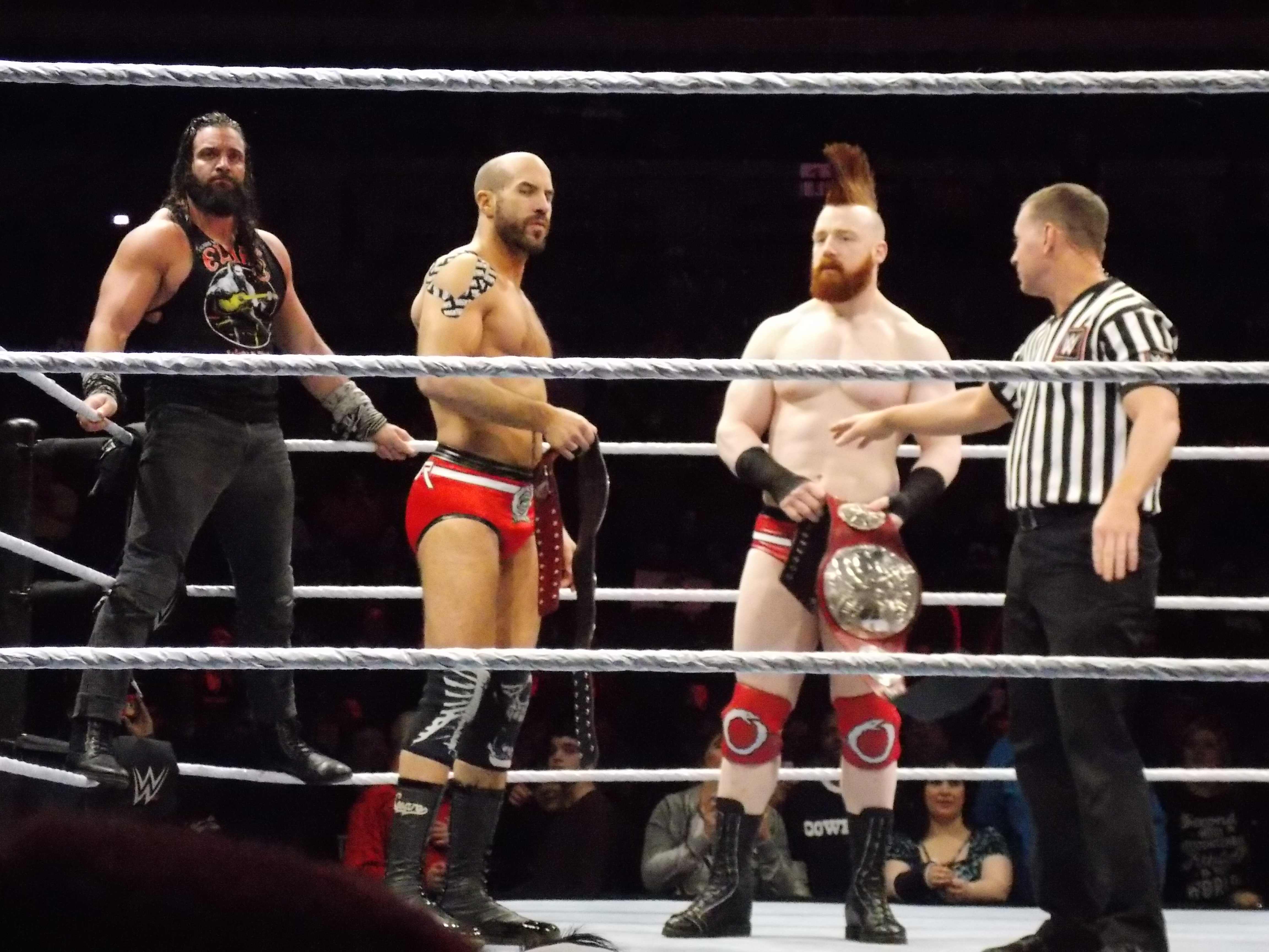 Elias, Cesaro & Sheamus at a WWE Live Event House Show in Omaha, Nebraska, USA on Sunday, February 4, 2018